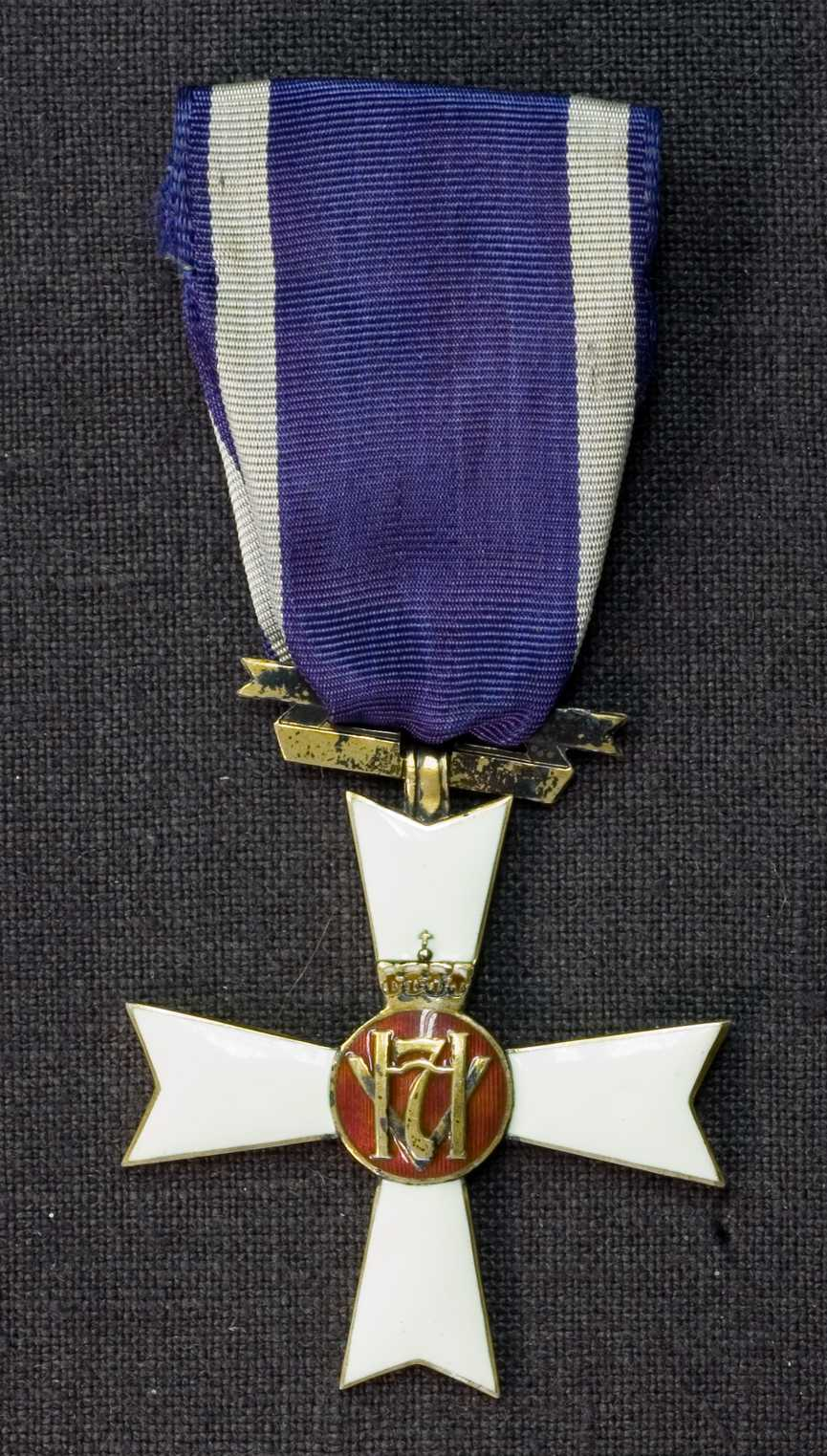 Norwegian decoration: Haakon VIIs Frihetskors. King Haakon VII Freedom Cross.